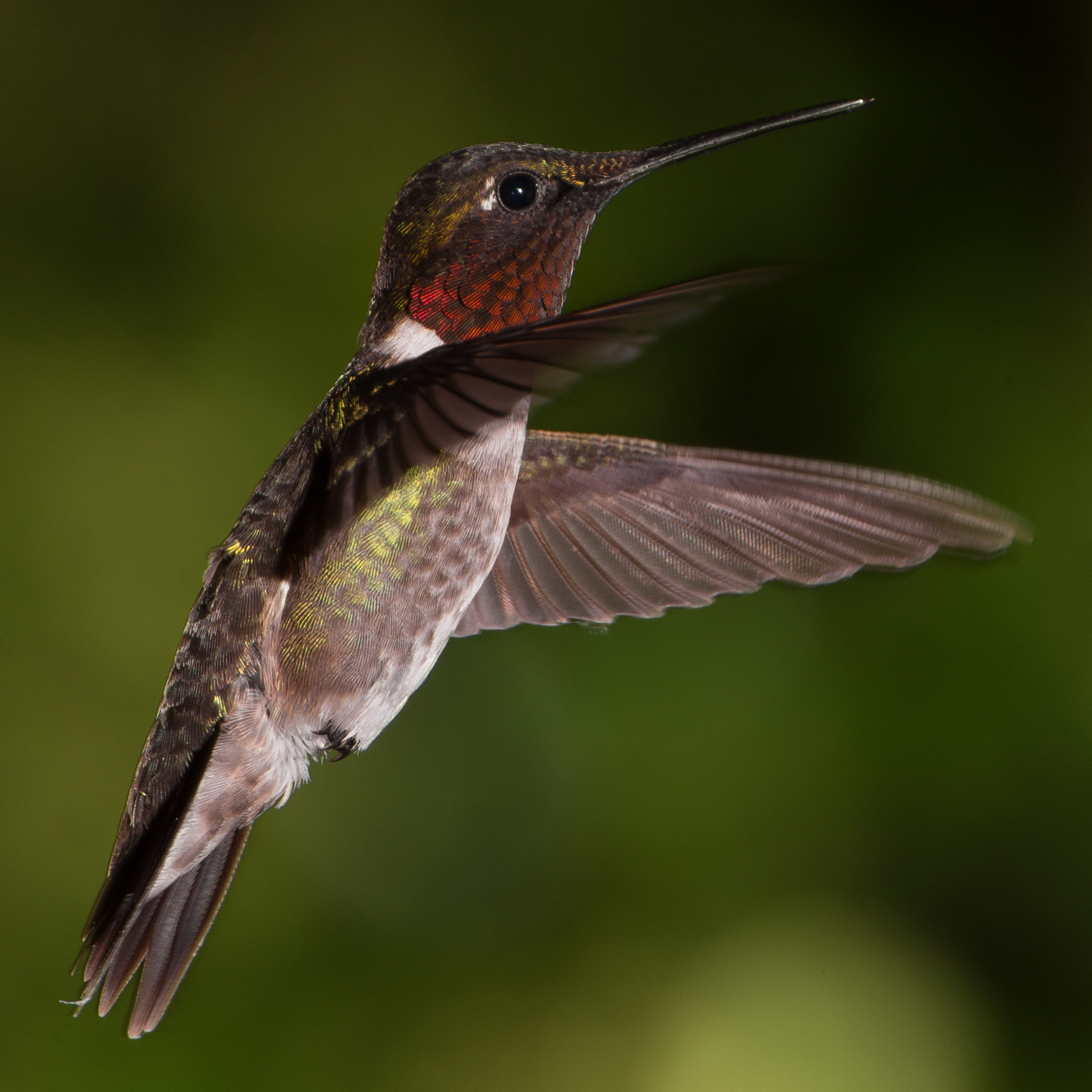 Male Ruby-throated Hummingbird (Archilochus colubris)